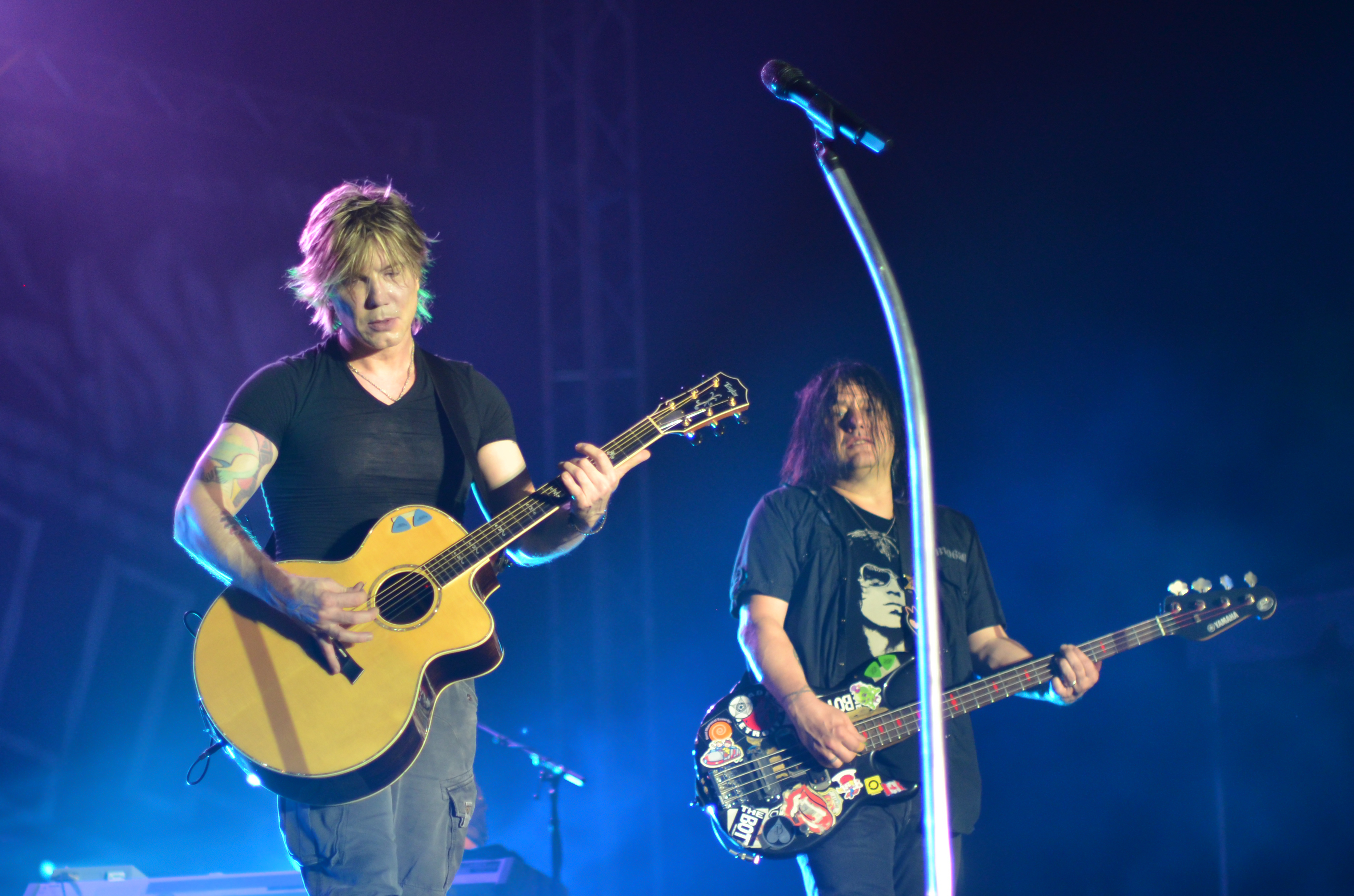 The Goo Goo Dolls performing in Norfolk, Nebraska in September 2013.